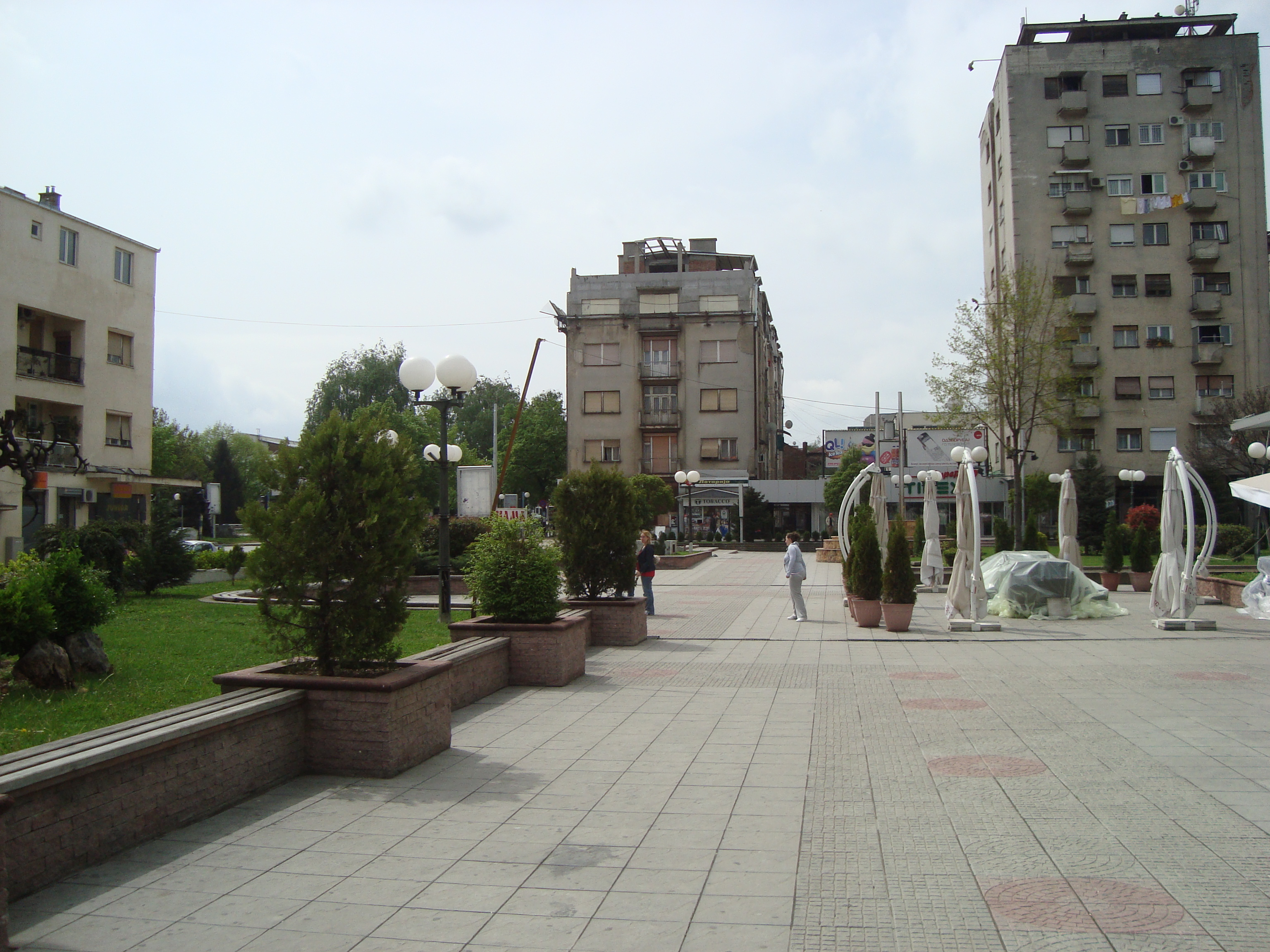 City Square in Kumanovo, Macedonia.